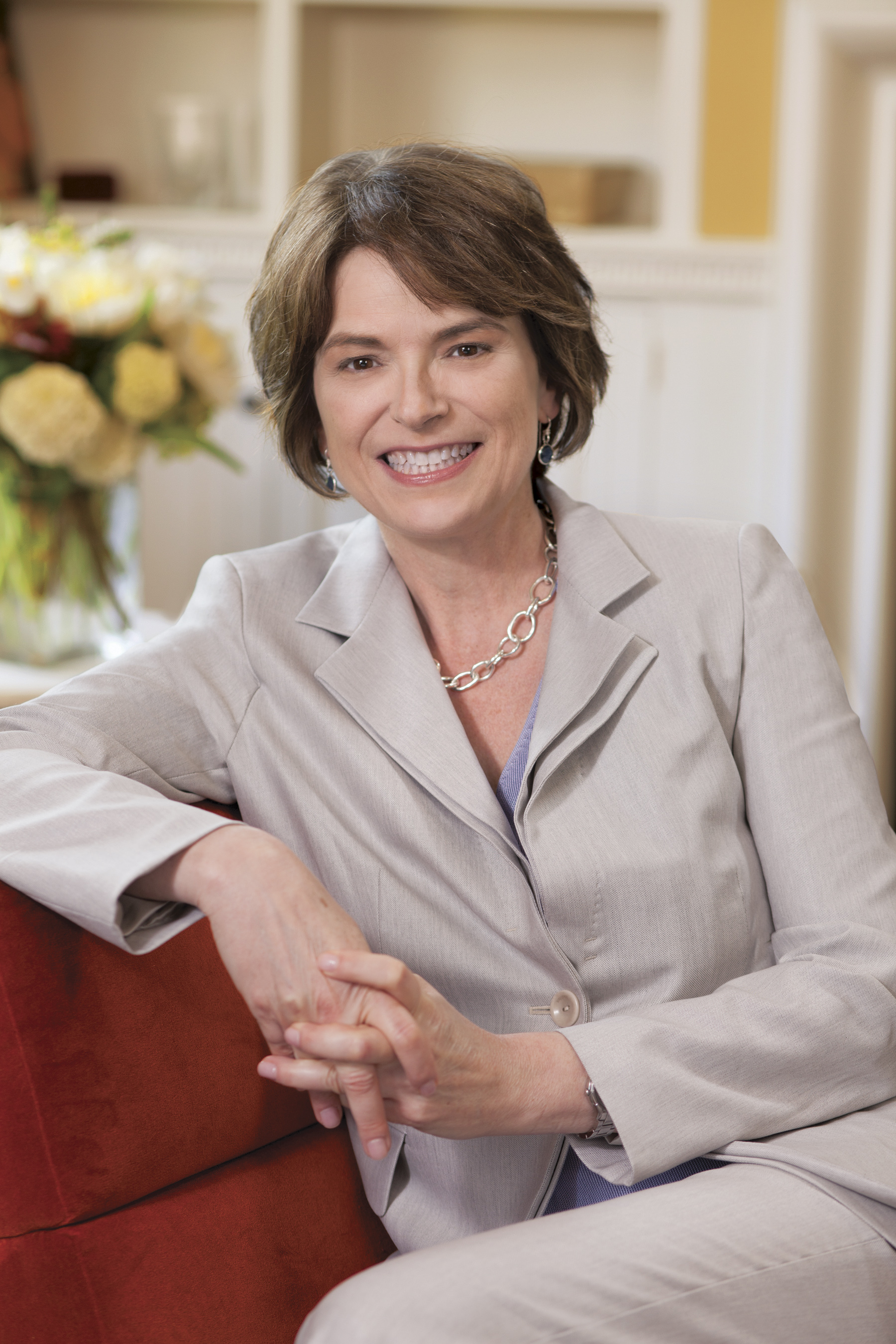 Portrait of Christina Paxson